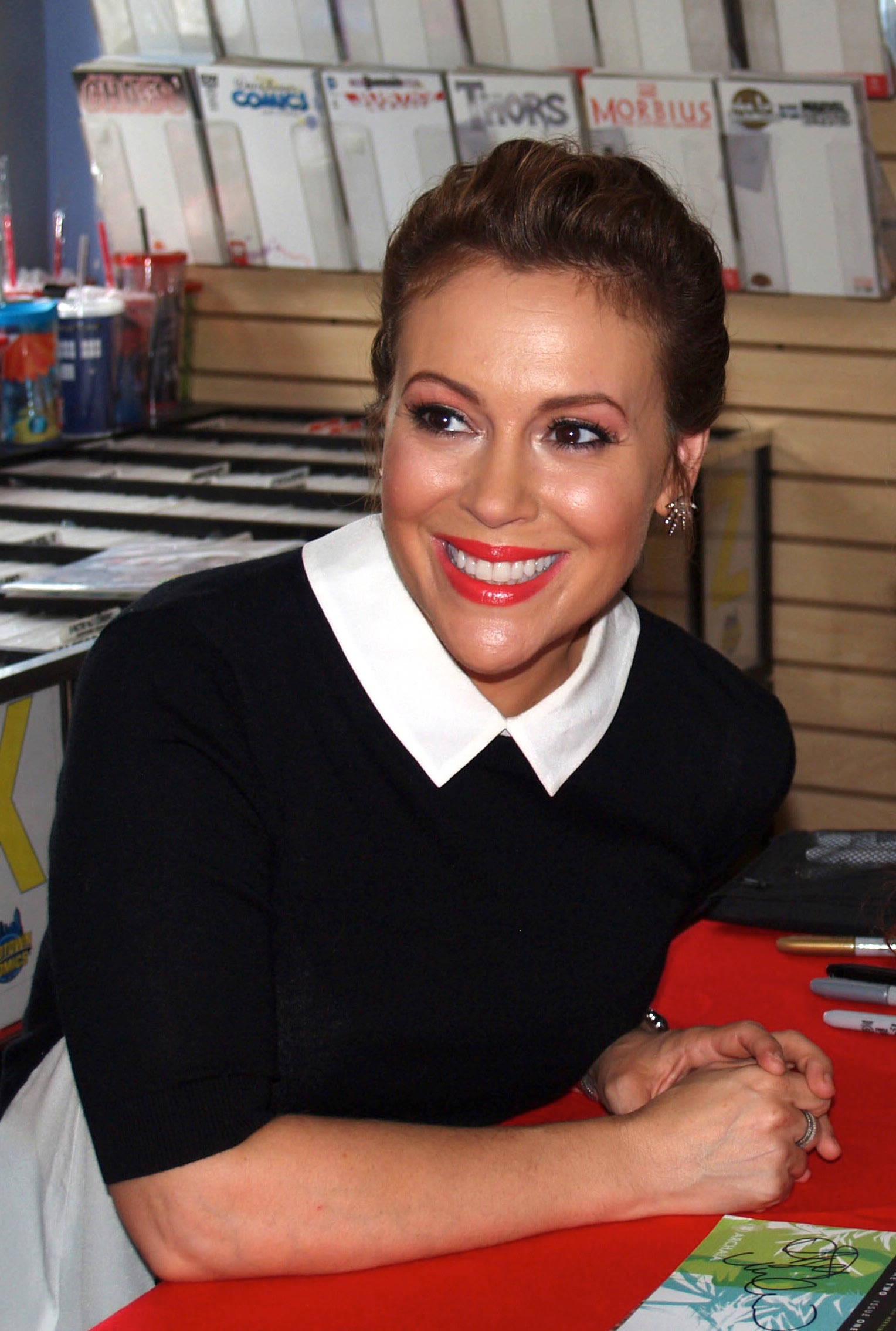 Actress Alyssa Milano at a September 12, 2015 book signing at Midtown Comics Downtown in Manhattan for her graphic novel, Hacktivist. This photo was created by Luigi Novi. It is not in the public domain, and use of this file outside of the licensing terms is a copyright violation.